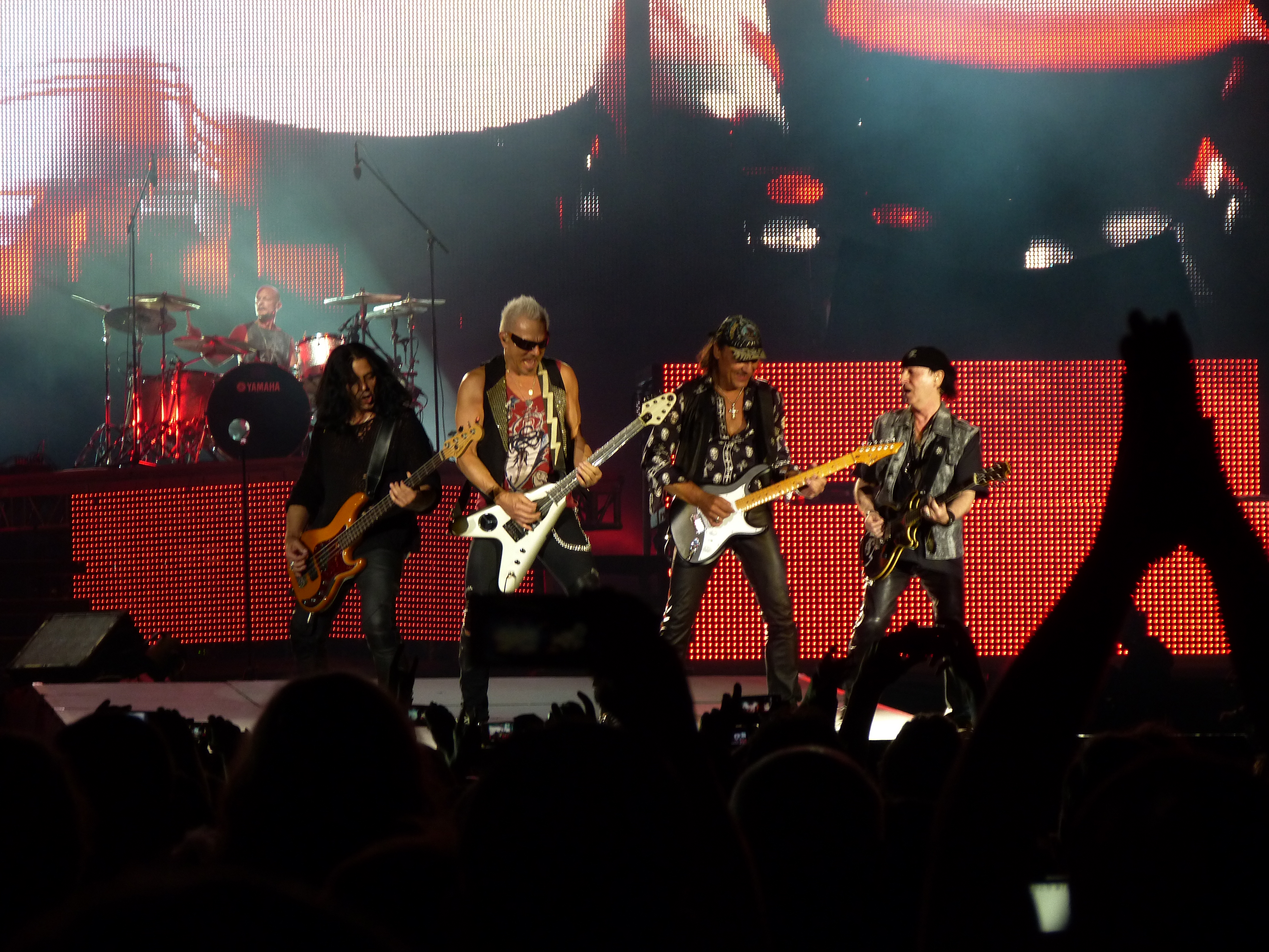 Live on the 16th of June 2014. It was 23 years ago, on the 19th of June,1991 that the last soviet soldier left Hungary. Budapest, Hungary. Hősök tere (Heldenplatz, Heroe’s squere). Tags: Kóbor János Scorpions Omega Budapest Klaus Meine Kóbor János Rudolf Schenker Matthias Jabs Pawel Maciwoda James Kottak